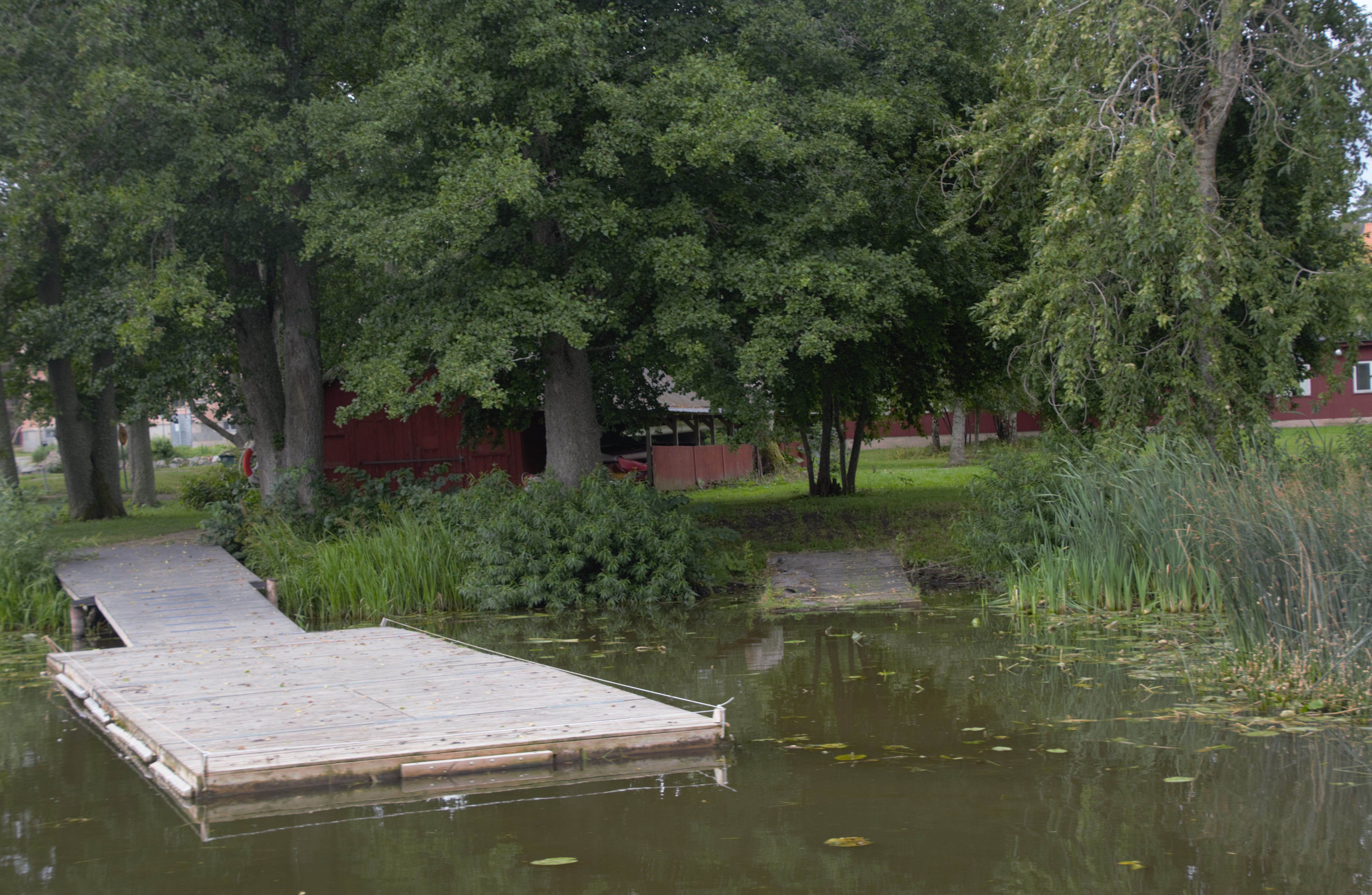 Uppsala akademiska roddarsällskap/Uppsala Rowing Club